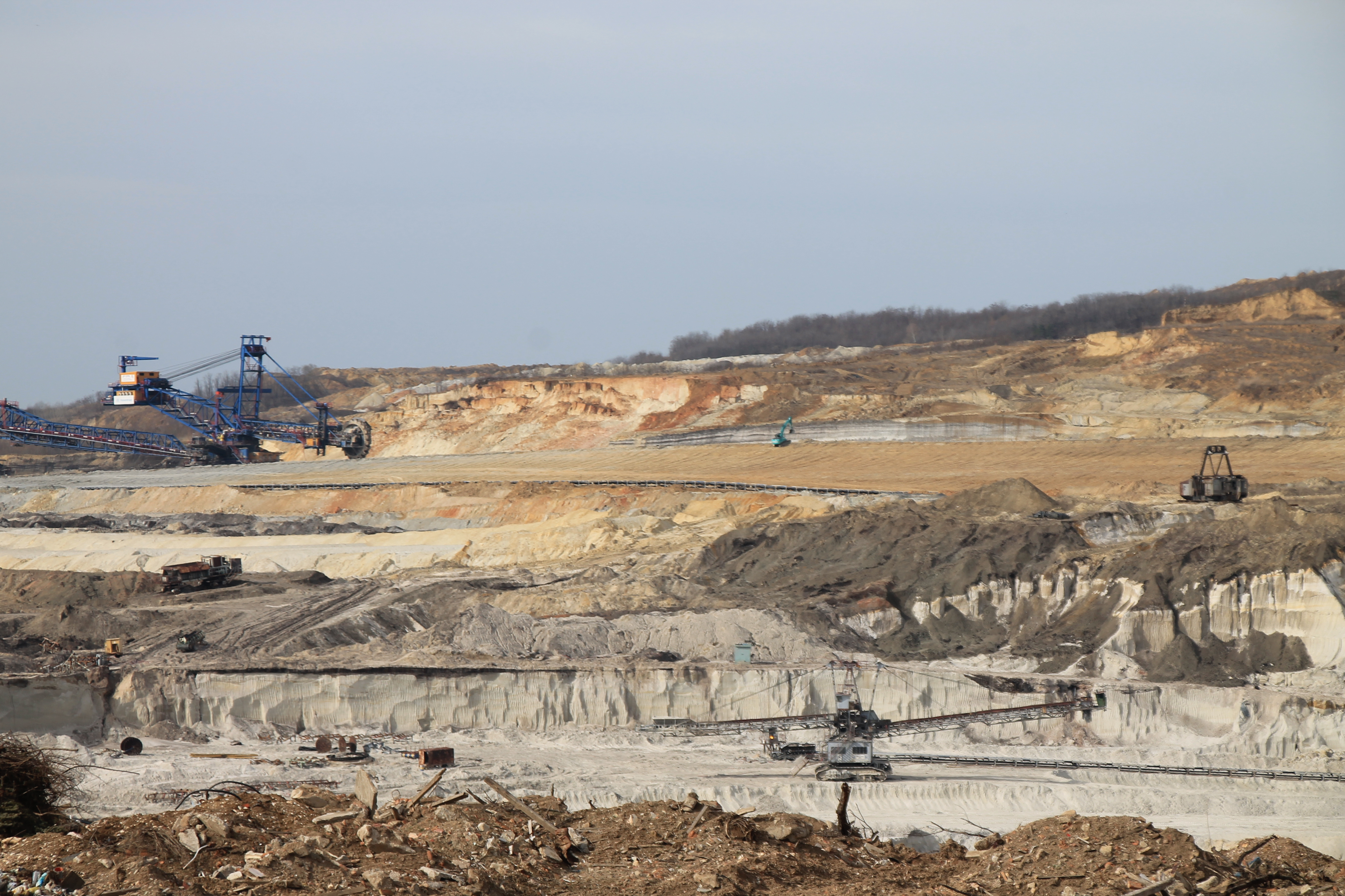 Kolubara mining basin